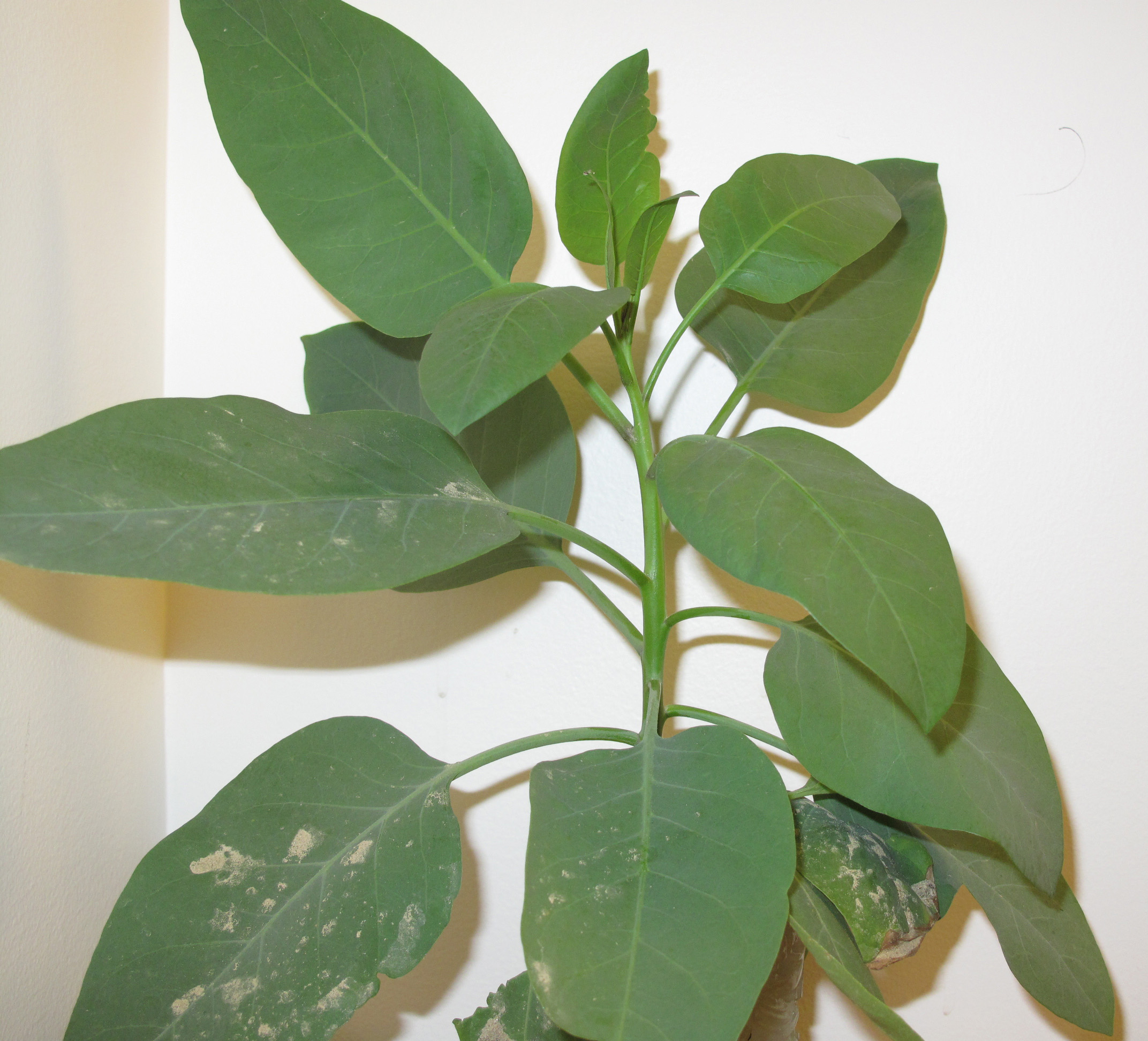 Nicotiana glauca (tree tobacco), found growing out of sand on a construction site in Los Angeles.